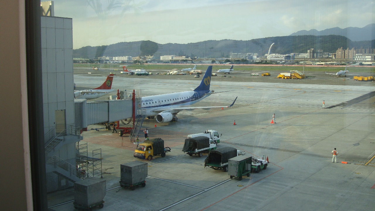 Seen from the observation deck of the Songshan Airport 11 empty bridge and dock in Mandarin Airlines flights